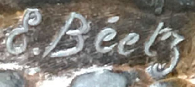 Signature of sculptor Elisa Beetz-Charpentier (1875—1949)